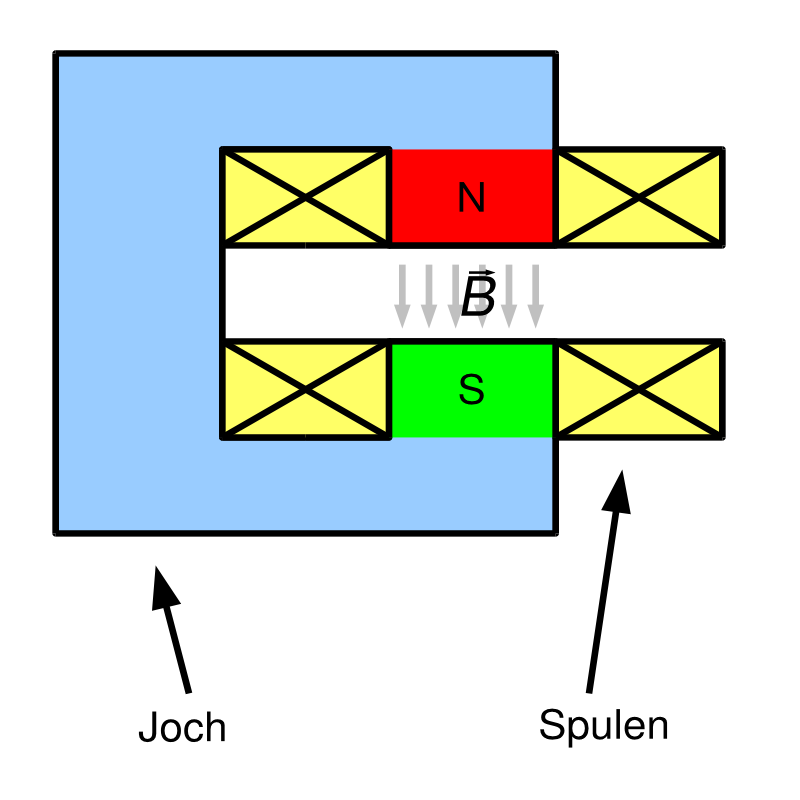 Sketch of a dipole magnet, German captions, based upon Image:Dipole_de.svg